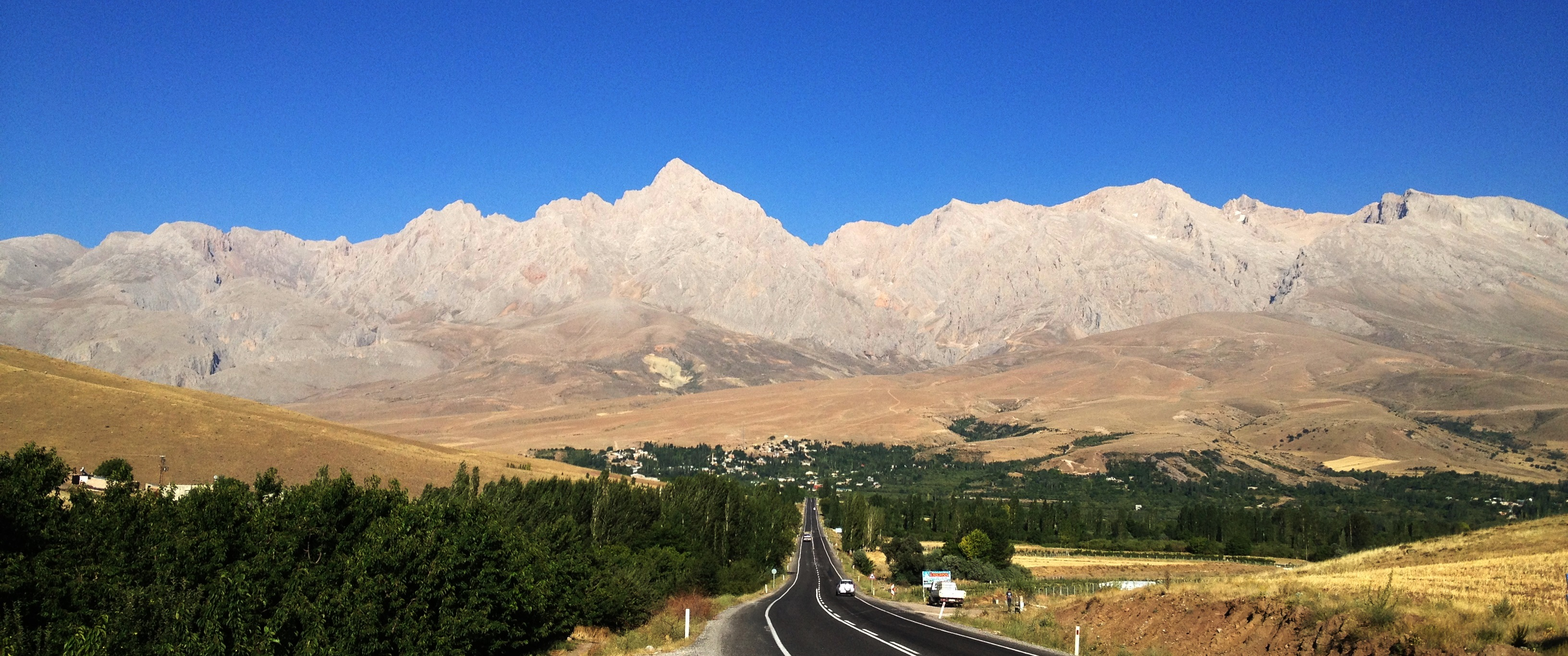 Behind Çukurbağ Village, a view of the Greater Demirkazik Peak of Aladaglar Mts., the highest point (3756 m.) in middle. Çukurbağ, Çamardı, Niğde - Turkey.